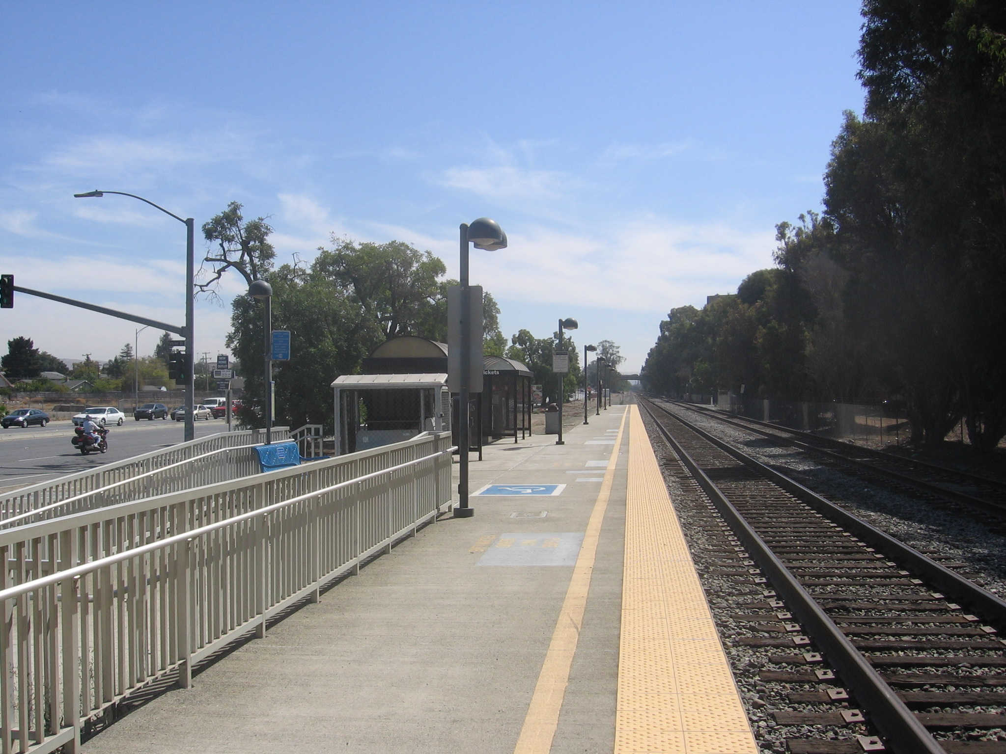 The Capitol (Caltrain station) in San José, California, USA.